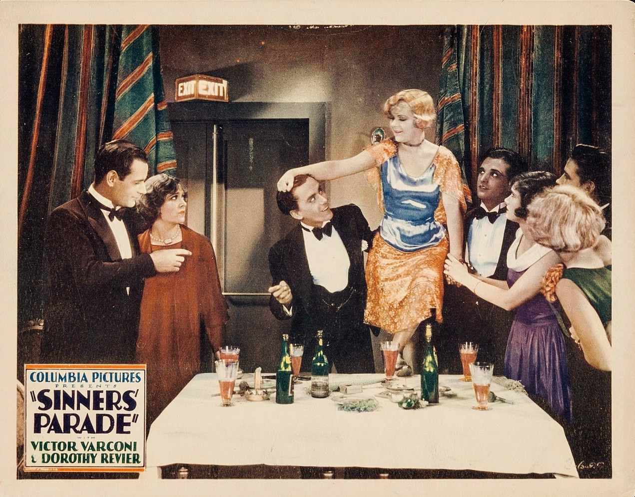 Lobby card for the American crime drama film Sinner's Parade (1928).